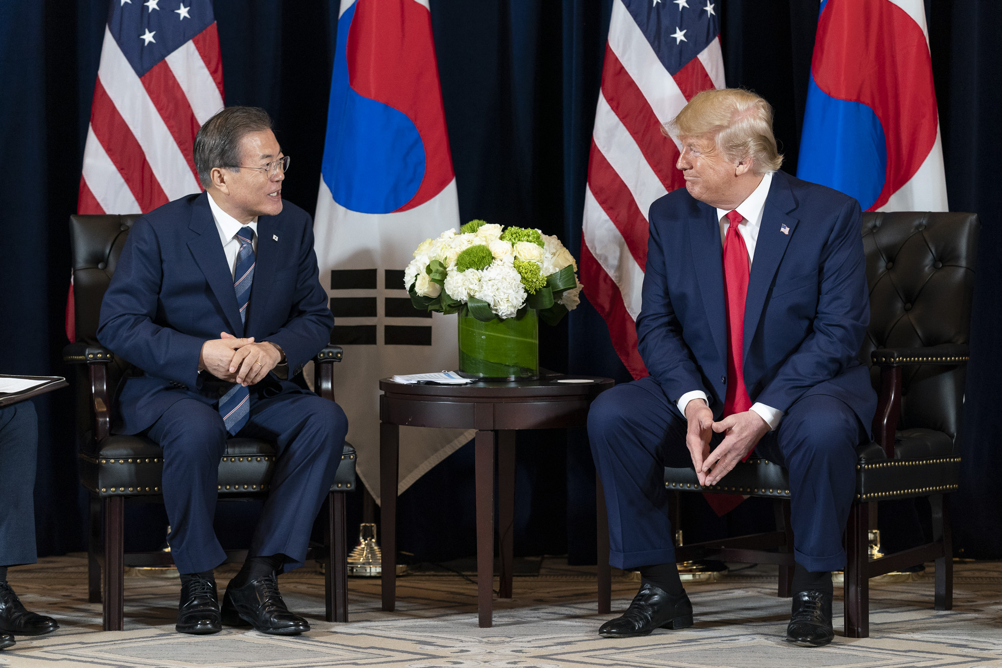 President Donald J. Trump participates in a bilateral meeting with South Korean President Moon Jae-in Monday, Sept. 23, 2019, at the InterContinental New York Barclay in New York City. (Official White House Photo by Shealah Craighead)